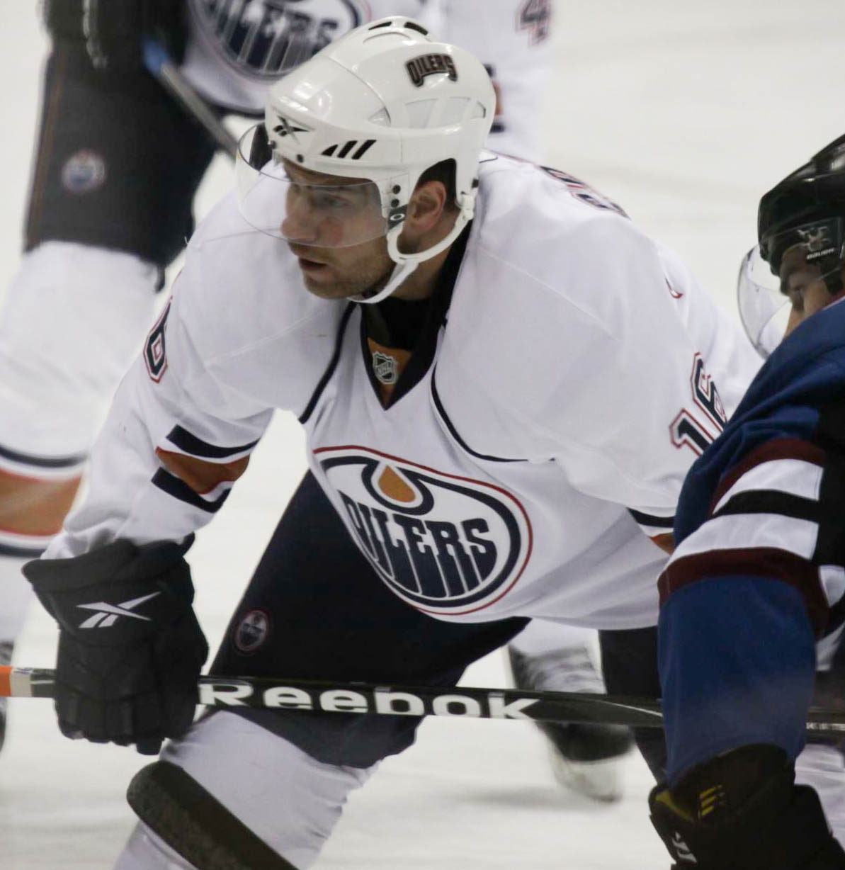 Edmonton Oilers at Colorado Avalanche, 2/6/10 @ Pepsi Center, Denver CO USA